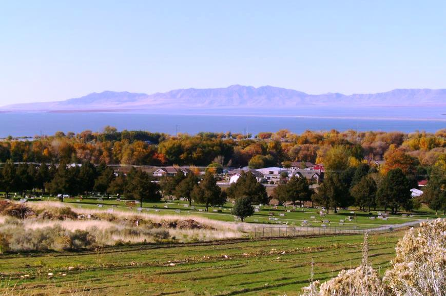 Willard Bay, town of Willard, Utah, with the Promontory Mountains across the Great Salt Lake, Box Elder County, Utah.